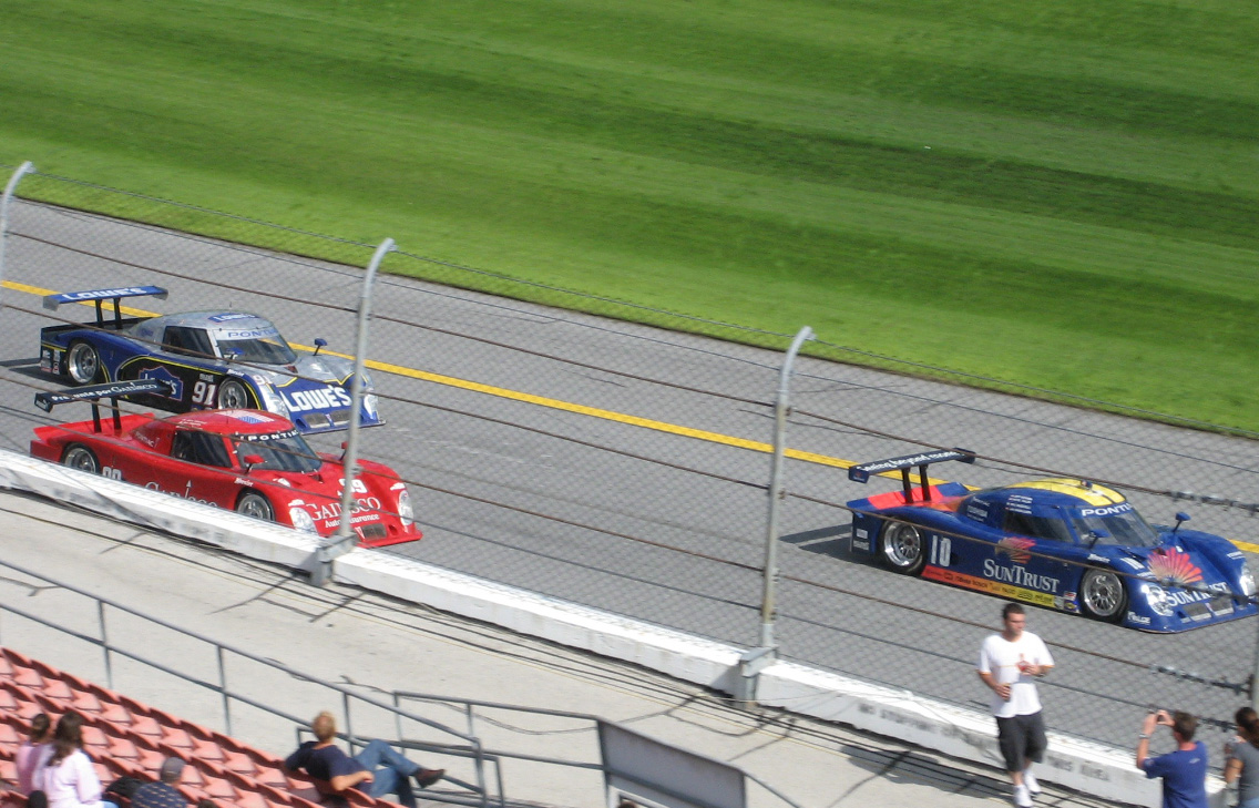 Daytona Prototypes competing at the 2007 Rolex 24 at Daytona. Photograph I took at the 2007 Rolex at 24 Daytona.